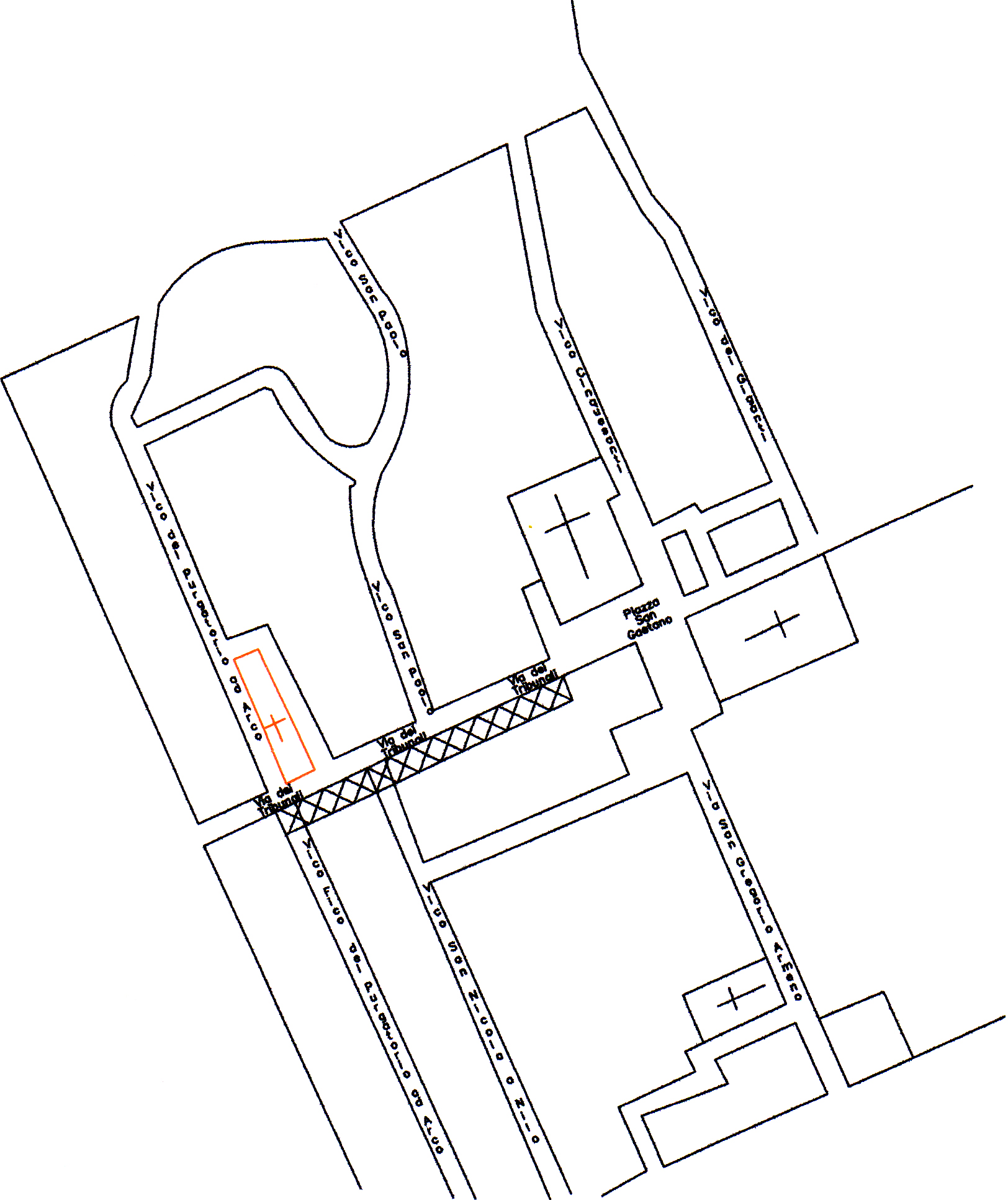 Via Tribunali's plan from Purgatorio Ad Arco to Piazza San Gaetano.